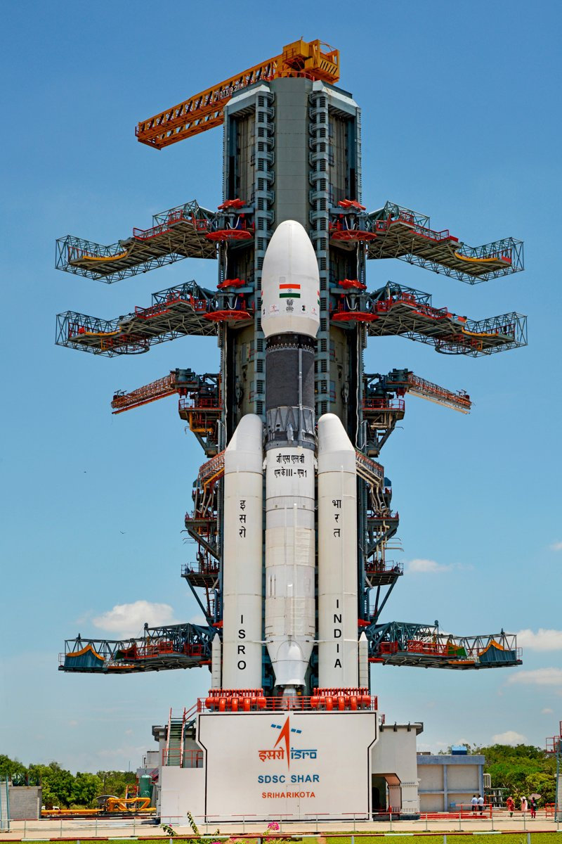 Chandrayaan 2 Module on GSLV MK III at Satish Dhawan Space Centre Second Launch Pad